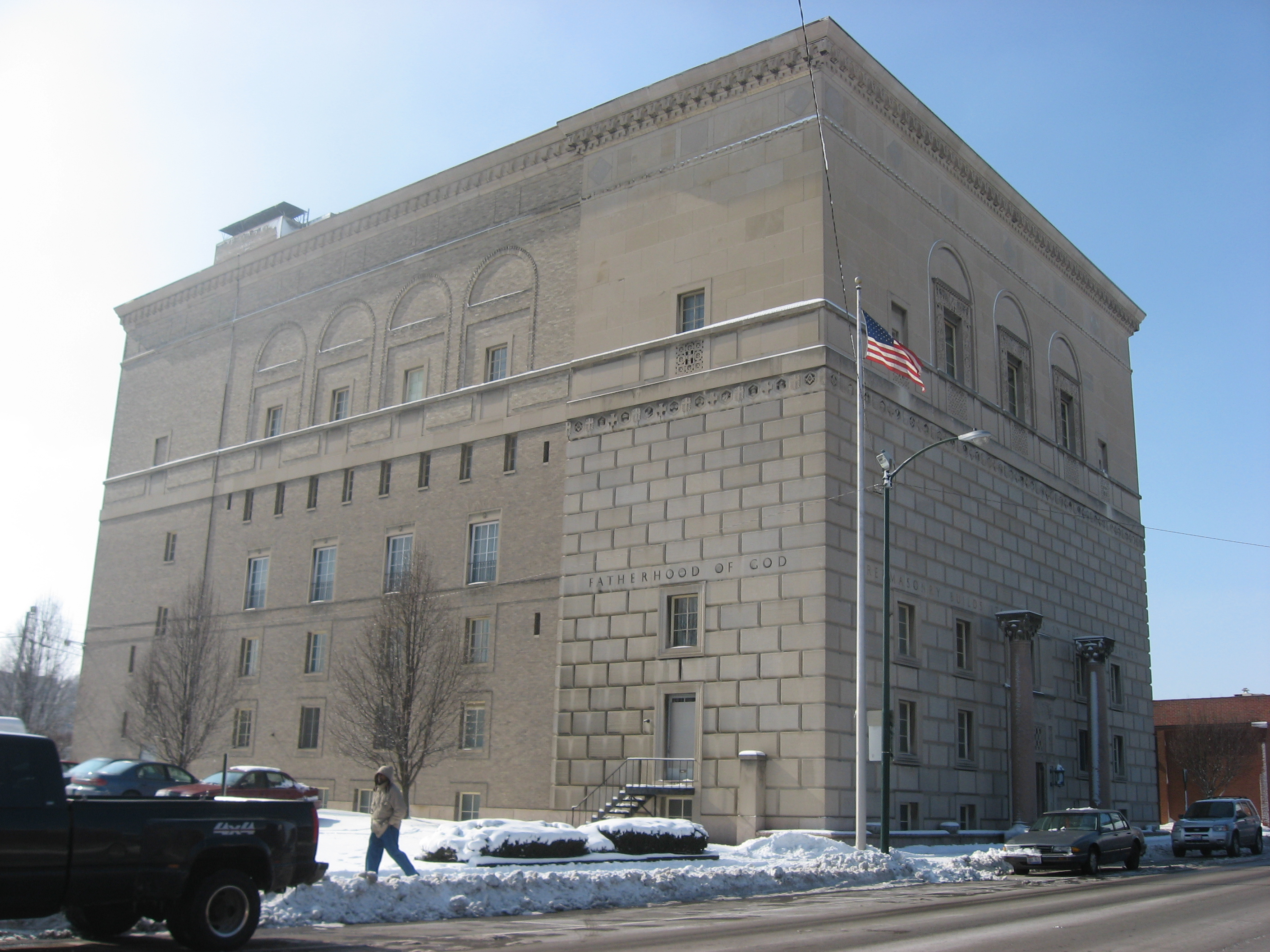 Front and eastern side of the Masonic Temple, located at 125 W. High Street in downtown Springfield, Ohio, United States. Built in 1927, it is listed on the National Register of Historic Places.